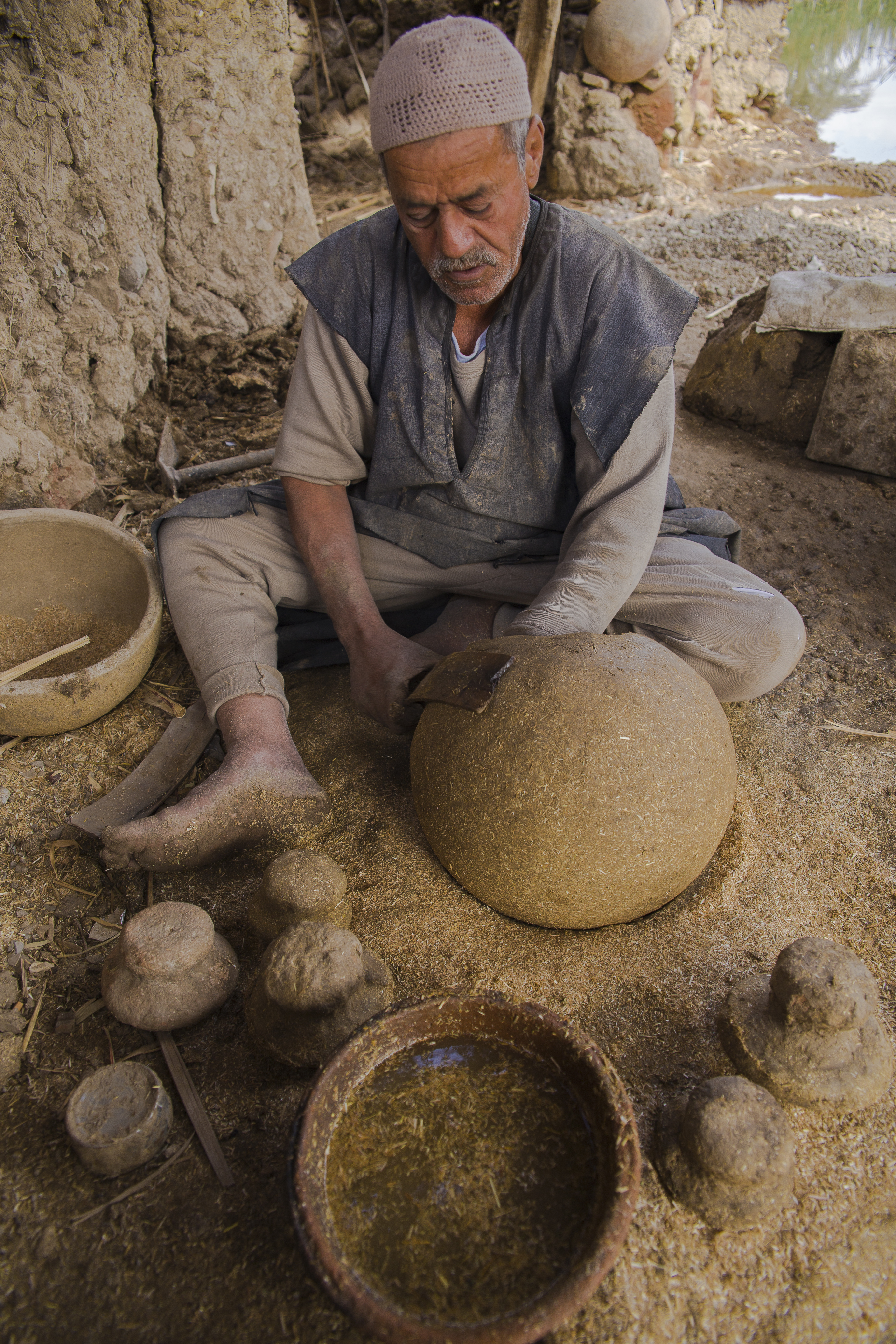 An Elder pottery maker that holds firmly to this ancient work, He uses the same primitive methods that Ancient Egyptians used long ago. Very few people left clings to this type of work, It really needs to be preserved. This is an image of "African people at work" from Egypt